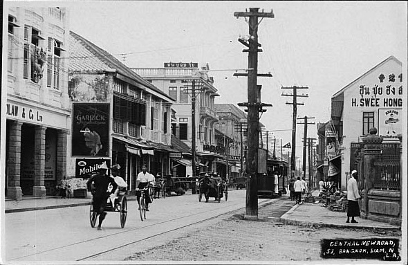 Postcard of Charoen Krung Road near the British Embassy (now the General Post Office), bearing the caption "Central New Road"